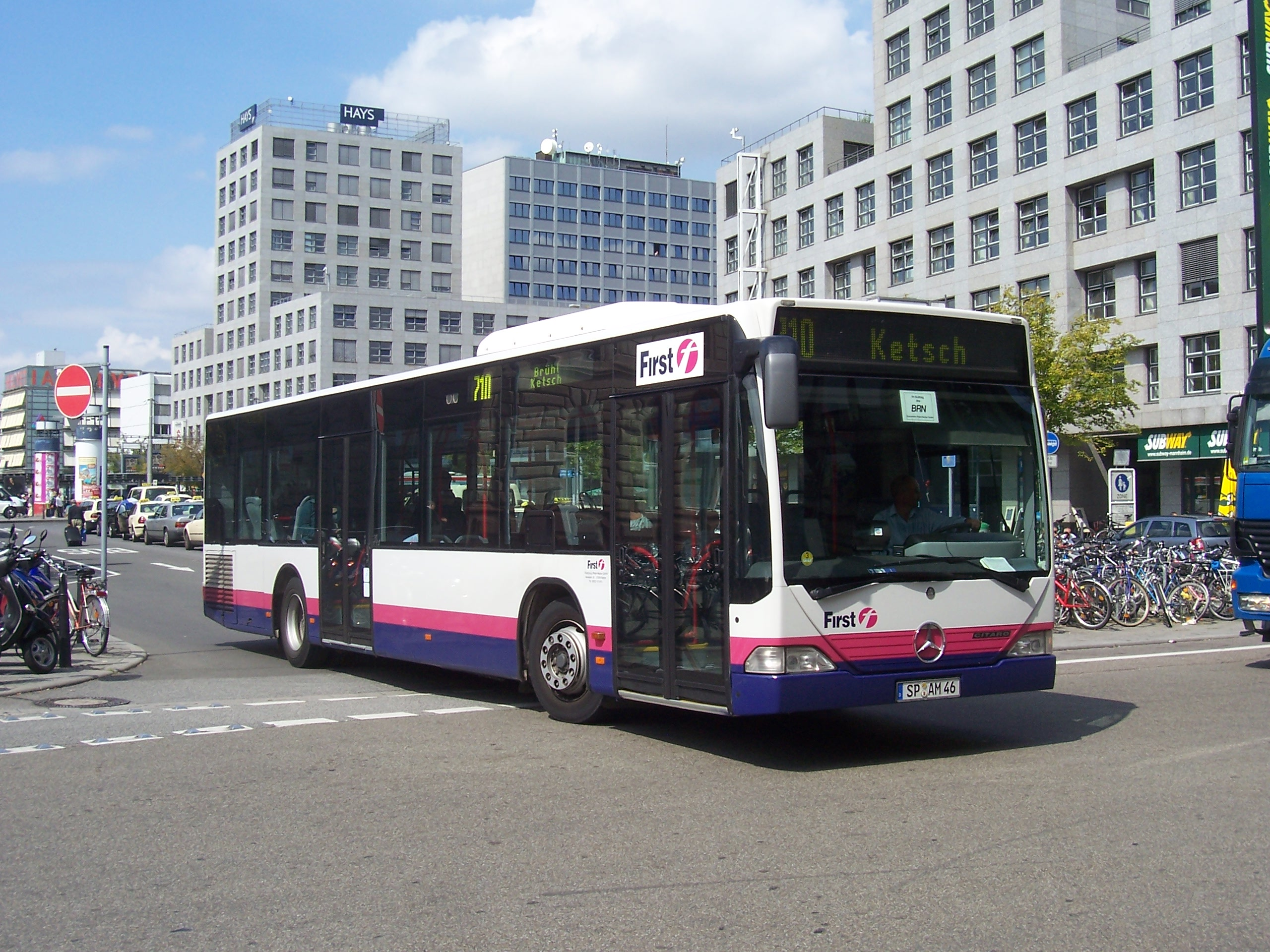 Mercedes-Benz Citaro bus (reg. SP-AM 46) operated by FirstGroup Rhein-Neckar on bus line BRN 710 leaving Mannheim main station.